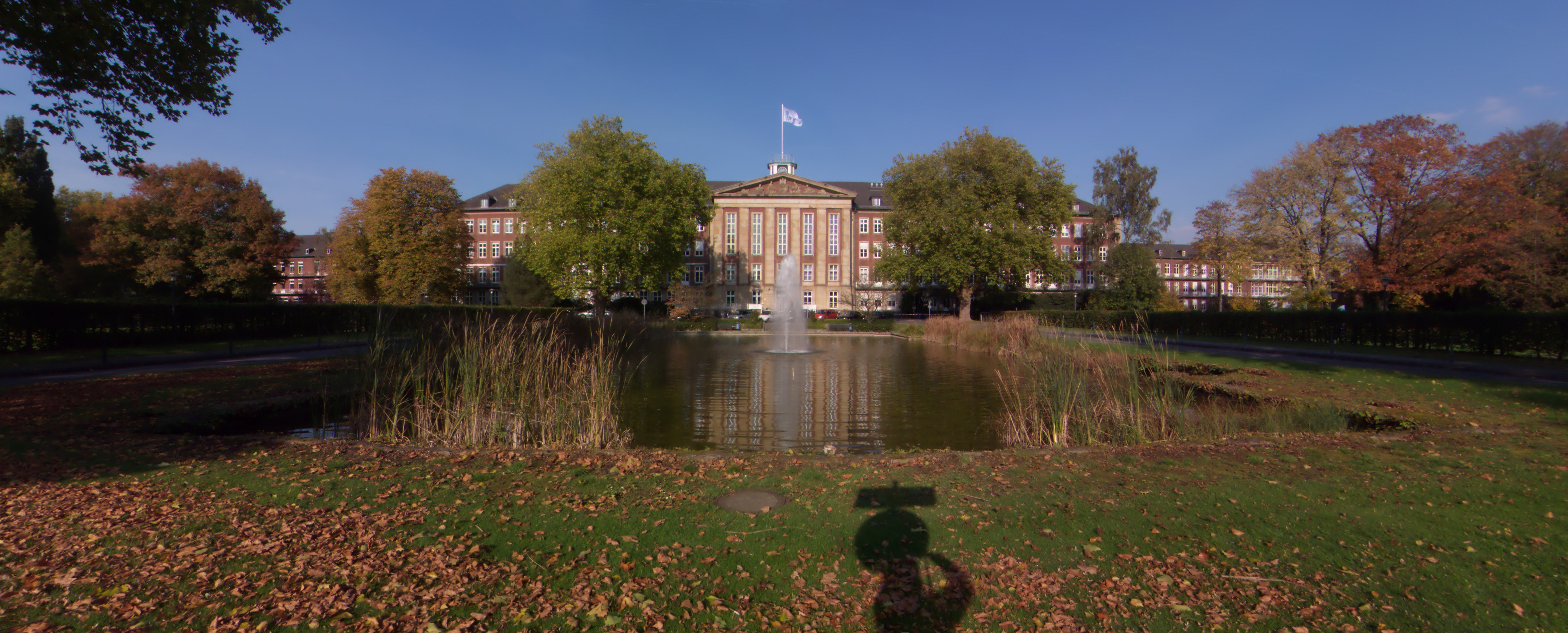 A panorama shot of the main entrance of the UKM Hautklinik (dermatology clinic), showing the fountain and pond. 6 photos were taken on a panasonic DMC-FZ18, then stitched together using Hugin (rectilinear projection).